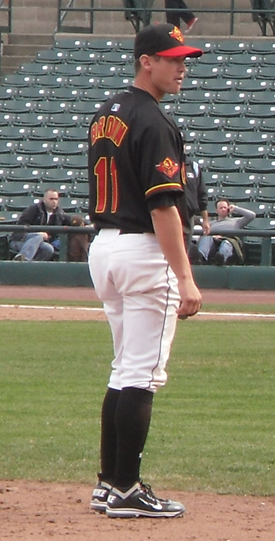 Matt Brown at third base for the Rochester Red Wings